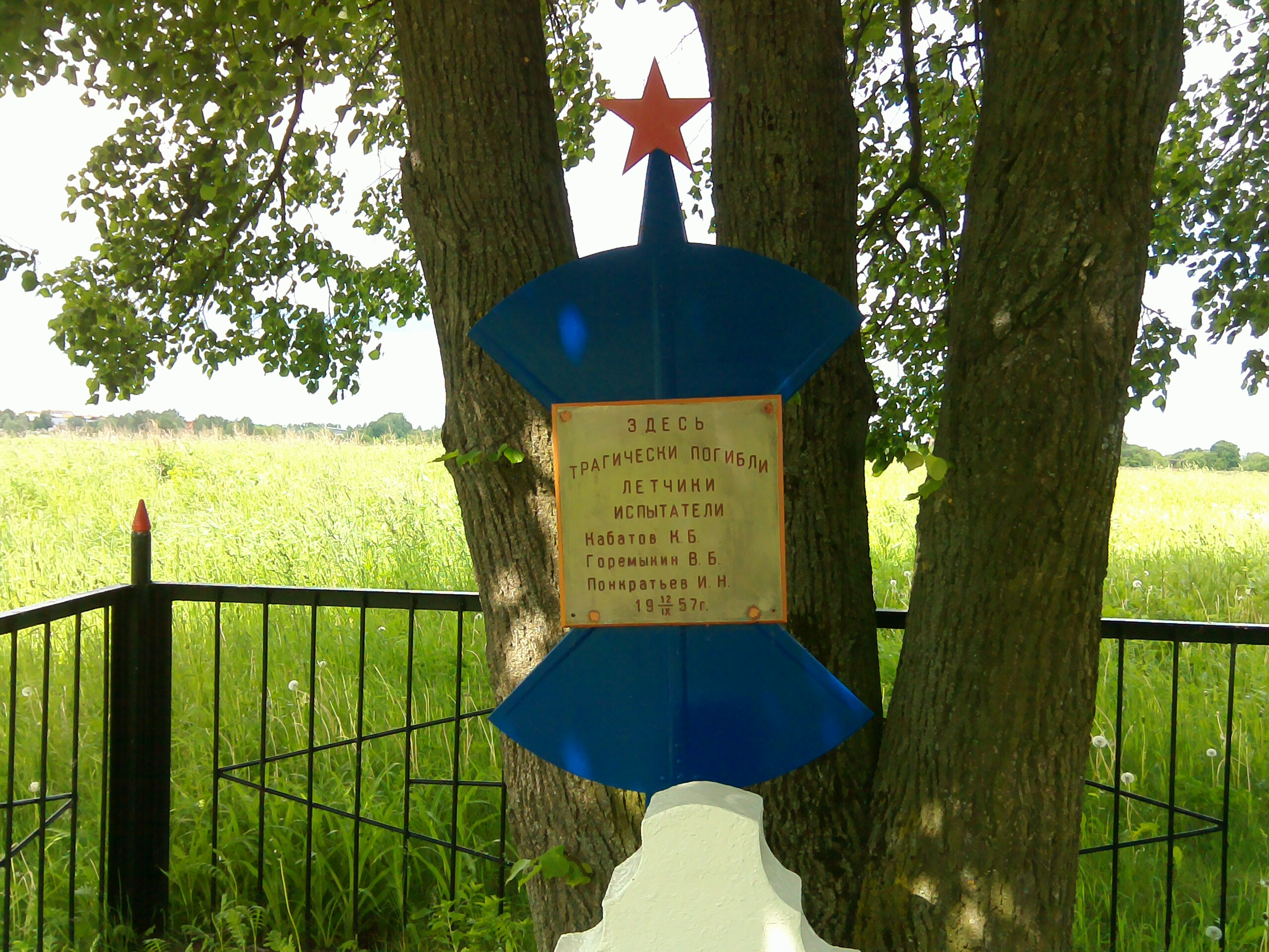 Pokrowskoe/ The place of death of 3 russian test-pilots